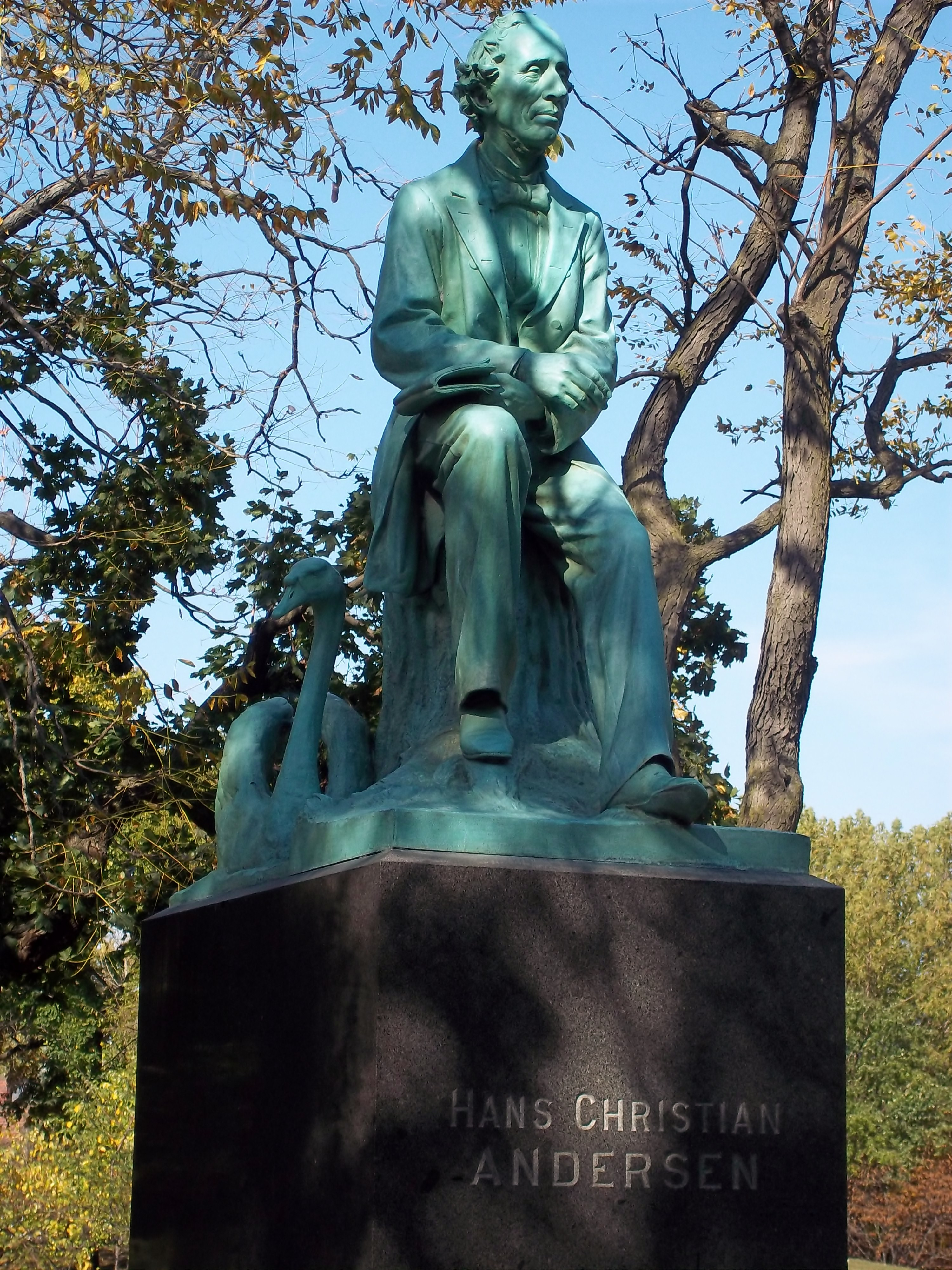 Statue of Hans Christian Andersen in Lincoln Park Chicago